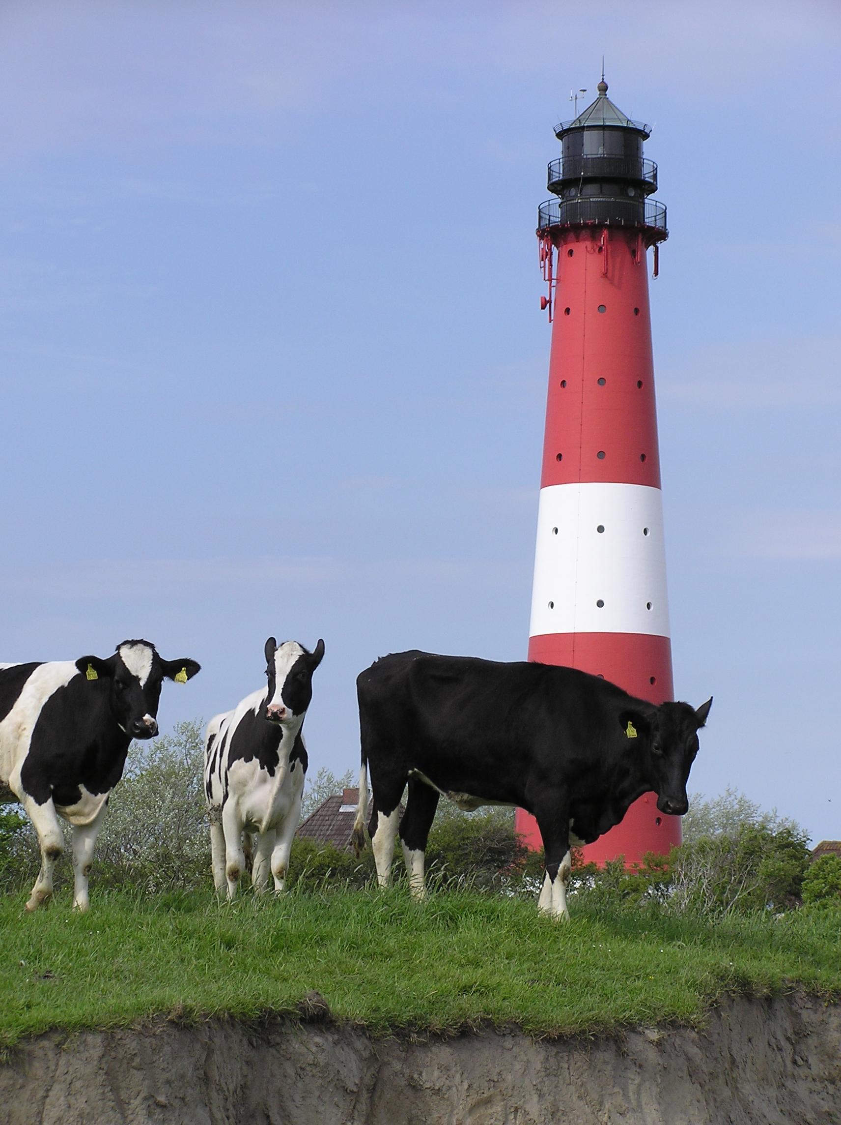 Lighthouse Pellworm, cattle